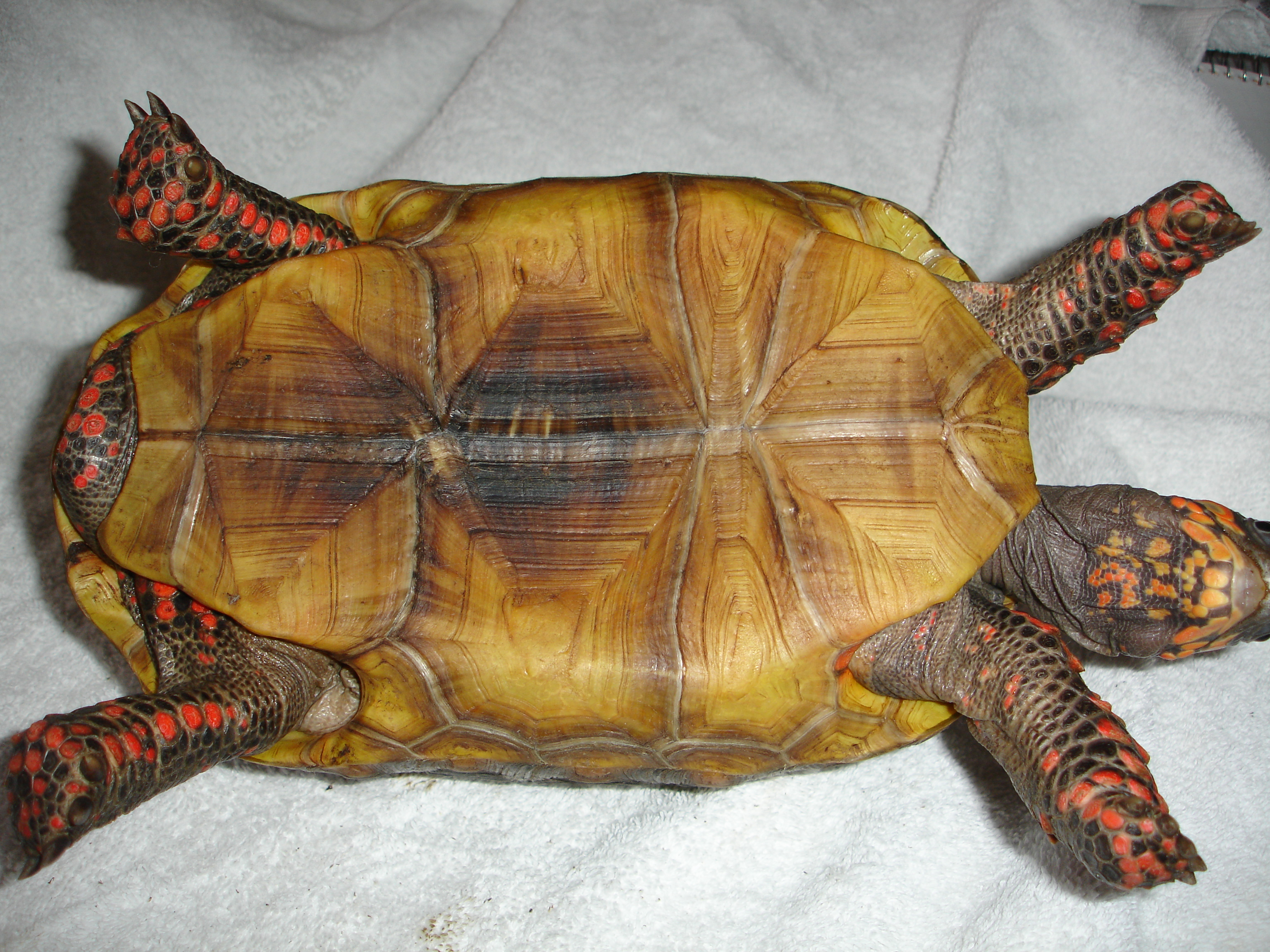 Plastron view of an adult male red-footed tortoise (Chelonoidis carbonaria)